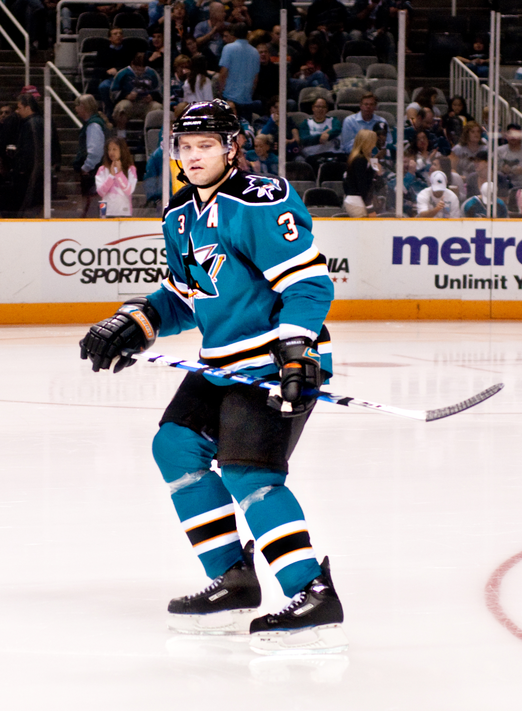 Douglas Murray of San Jose Sharks